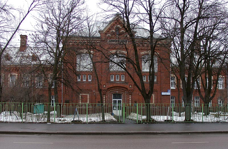 Devichye Pole, Moscow, Medical Campus - old public hospital for children